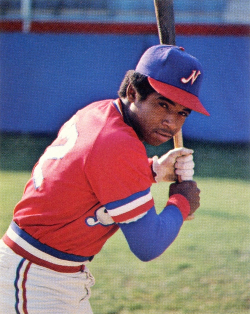 Third baseman Skeeter Barnes of the 1979 Nashville Sounds Minor League Baseball team of the Southern League